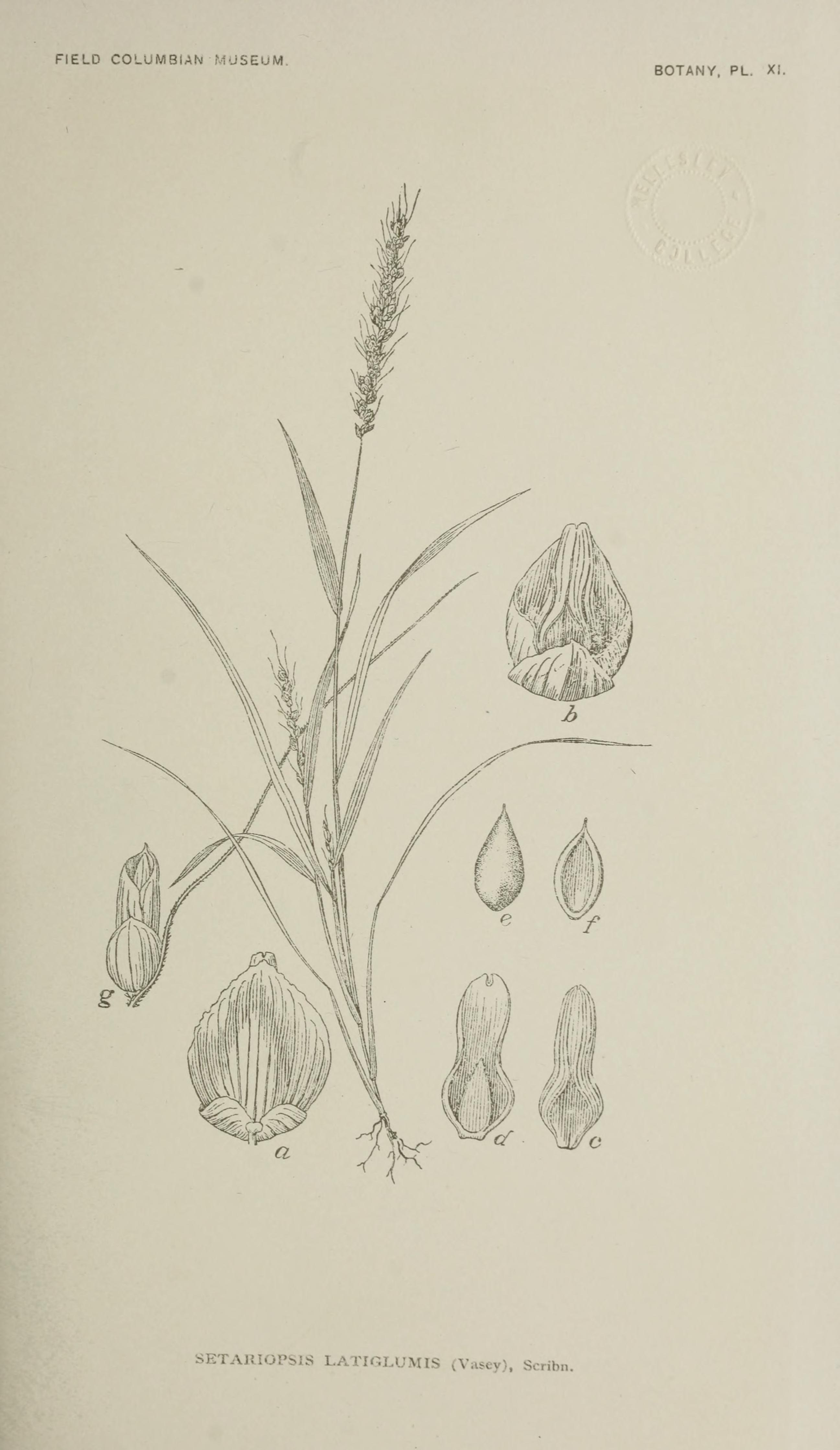 Title: Contribution (I)-III to the coastal and plain flora of Yucatan Year: 1895 (1890s) Authors: Millspaugh, Charles Frederick, 1854-1923 Subjects: Botany Publisher: Chicago Text Appearing Before Image: FIELD COLUMBIANi M-JSEuM BOTANY. PL. Xi. Text Appearing After Image: SETAJlIOPbIS LATiniJJMiS (Vusey). Scribn.